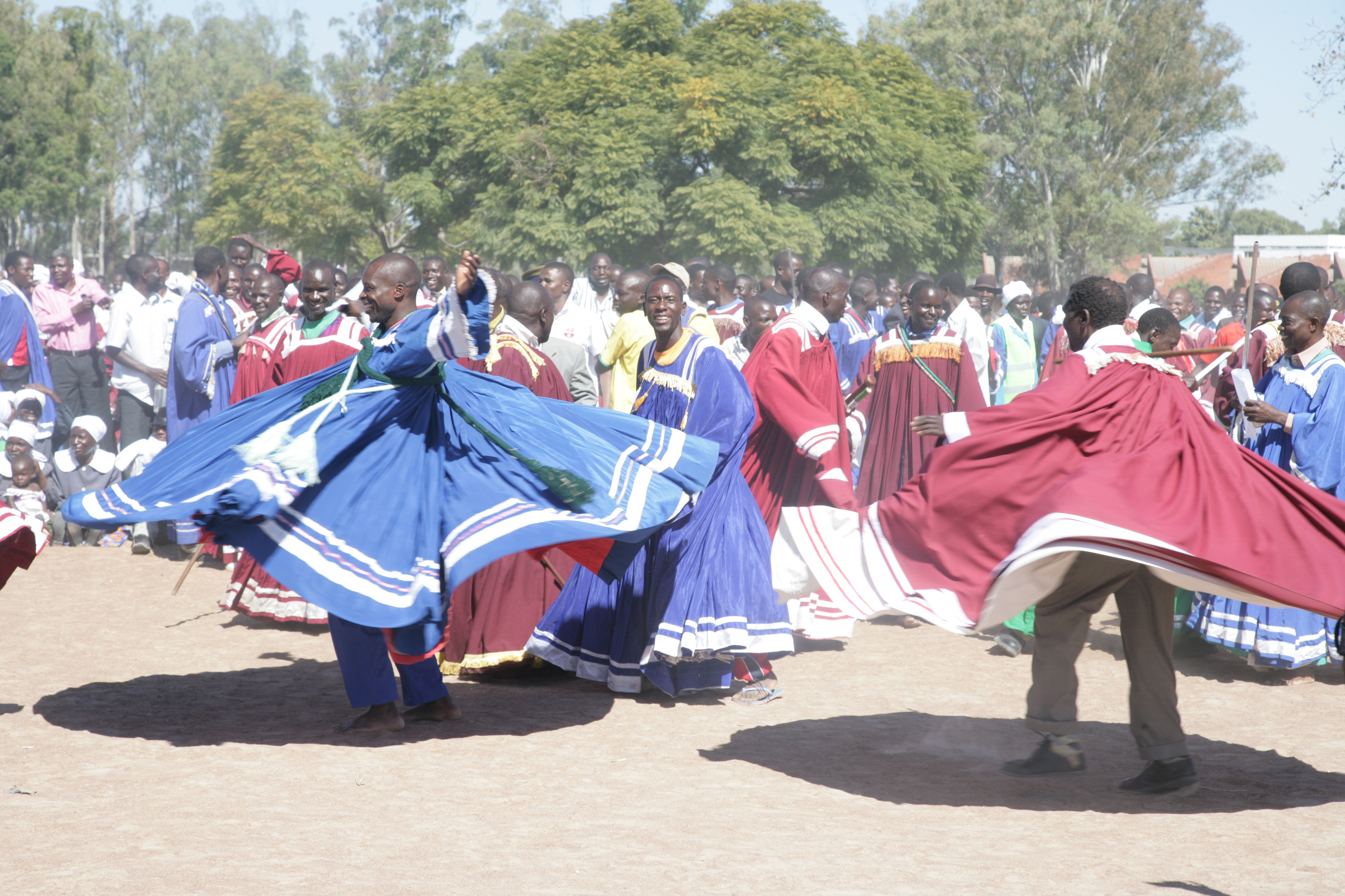 the file shows Zion congregants dancing to the drums and singing This is an image with the theme "Play" from: Zimbabwe